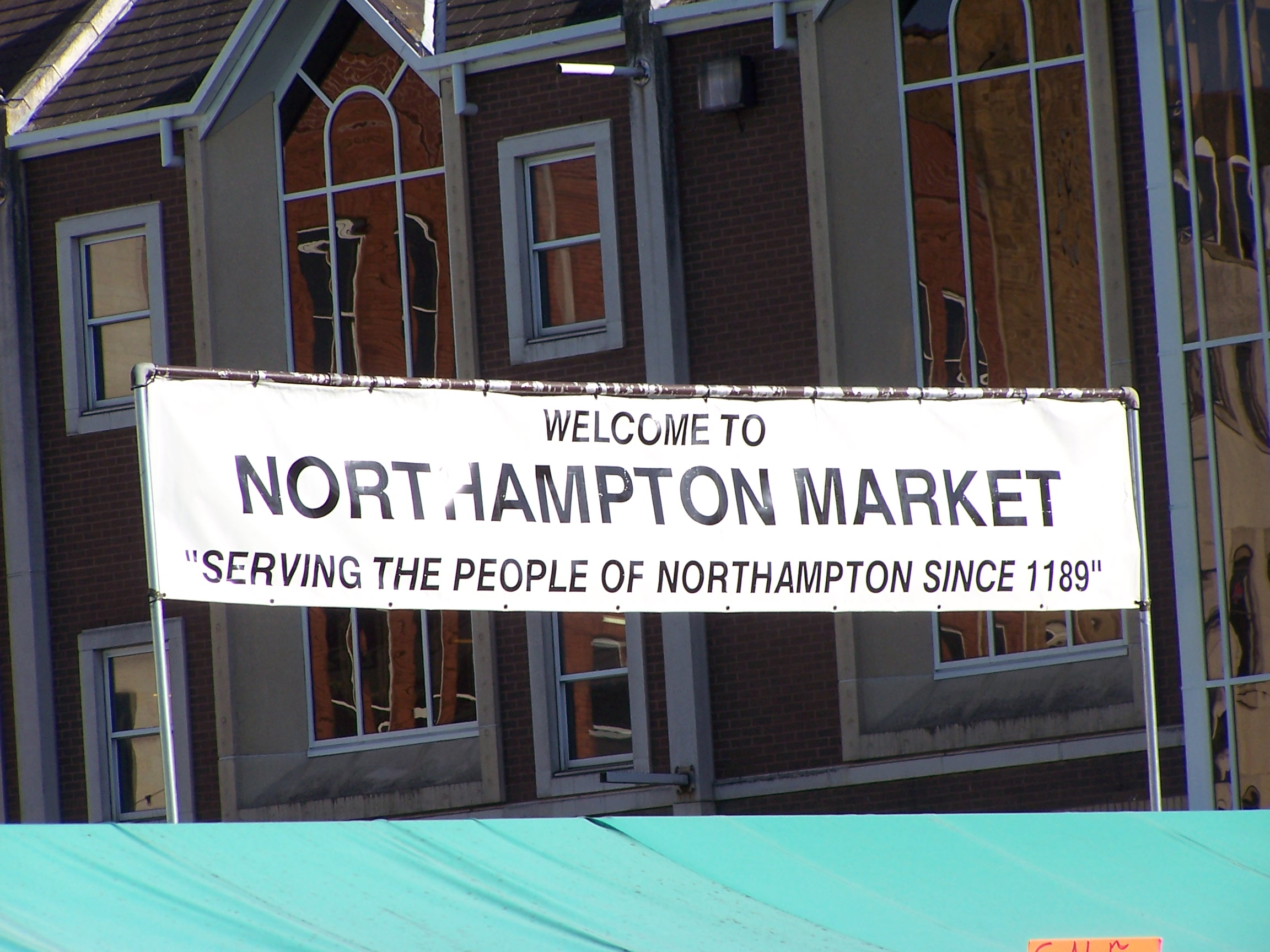 Banner in Northampton Market